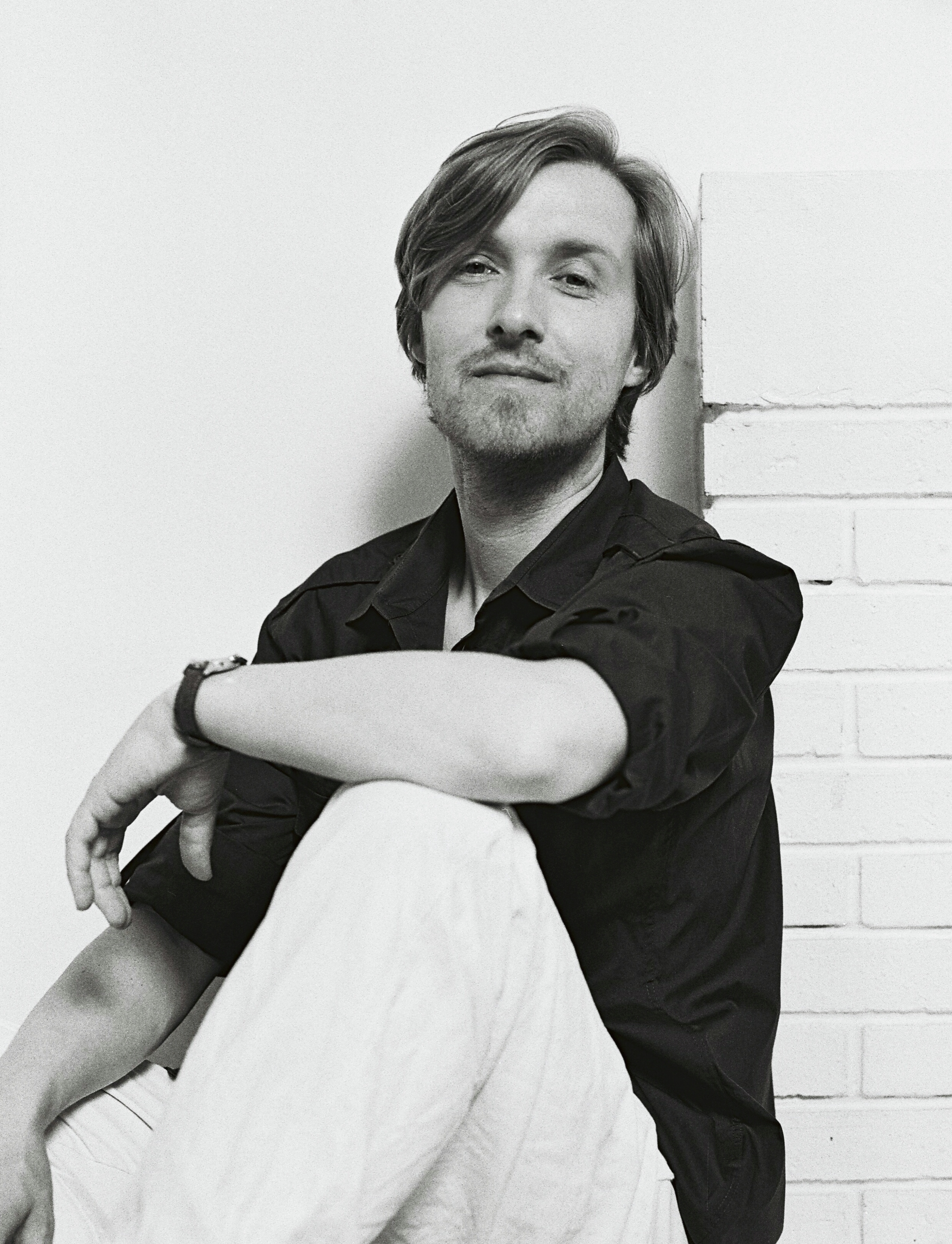 The German classical tenor Jan Kobow